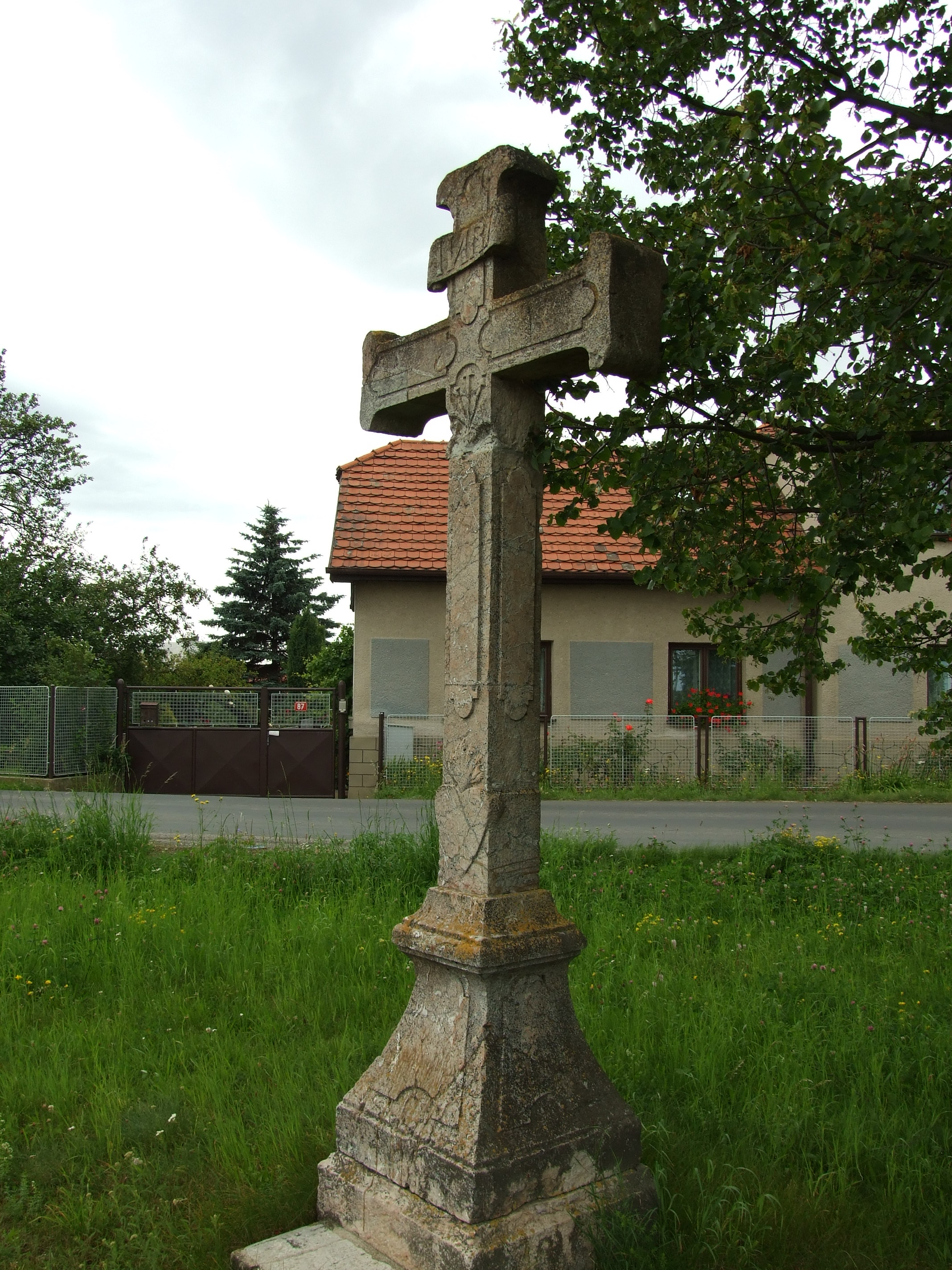 Town of Mezouň and surrounding countryside in Central Bohemian Region situated close to Prague, CZhelp